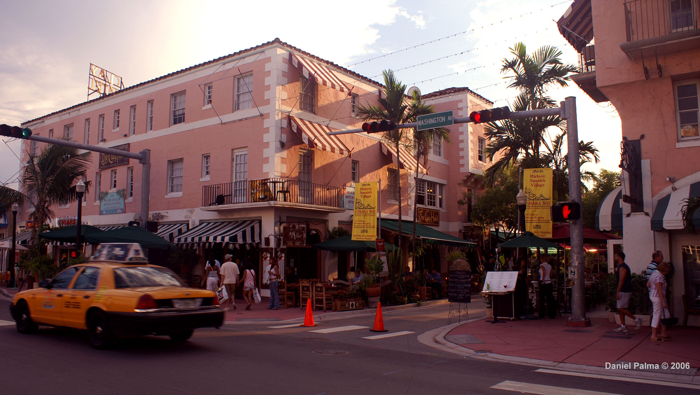 Miami Beach Clay Hotel - Washington Avenue & Española Way